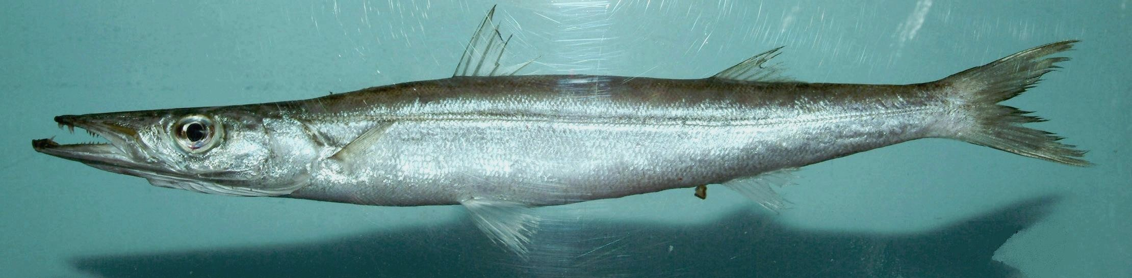 Guachanche barracuda or guaguanche ( Sphyraena guachancho ). Gulf of Mexico.